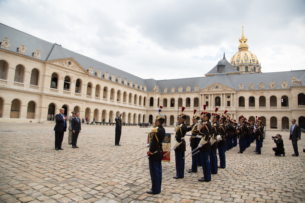 President Donald J. Trump and President Emmanuel Macron / July 13, 2017 (Official White House Photo by Shealah Craighead)